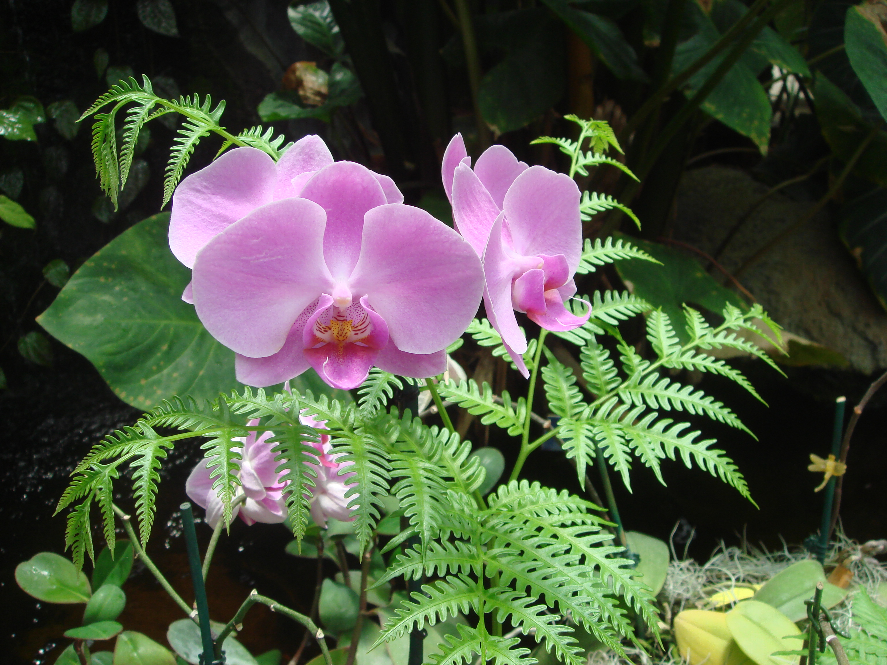 Orchid on display at American Orchid Society, Delray Beach, FL